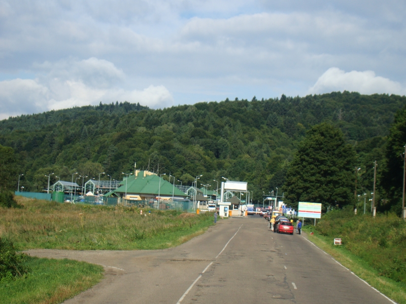 Poland–Ukraine border crossing Krościenko-Smilnytsya